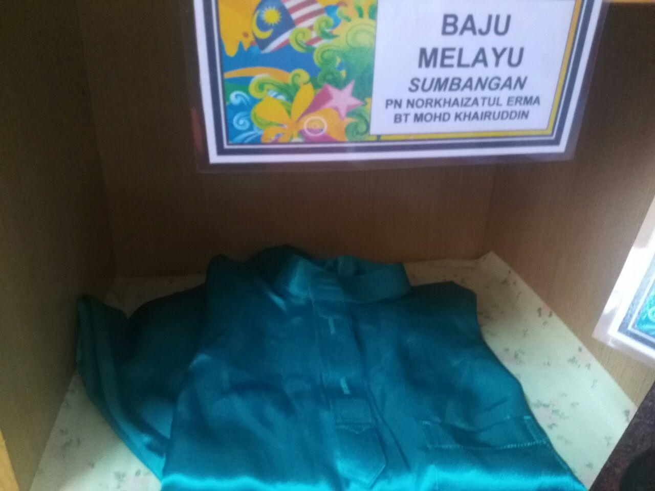 Baju Melayu Cekak Musang